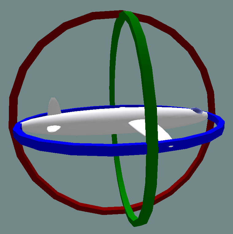 Not very high quality, but describes article Gimbal lock quite well.